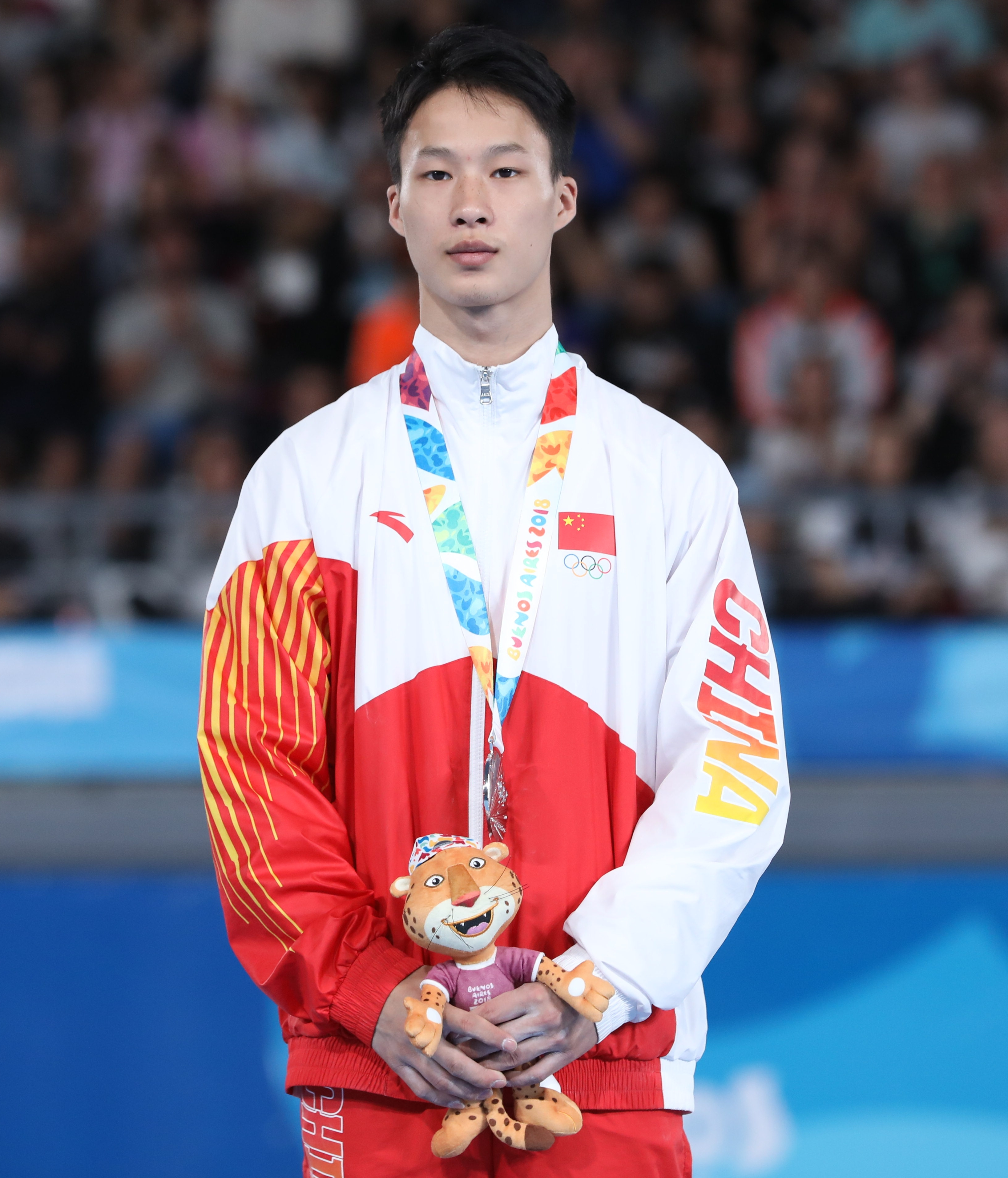 Boys' Artistic Gymnastics, Parallel bars: Victory ceremony